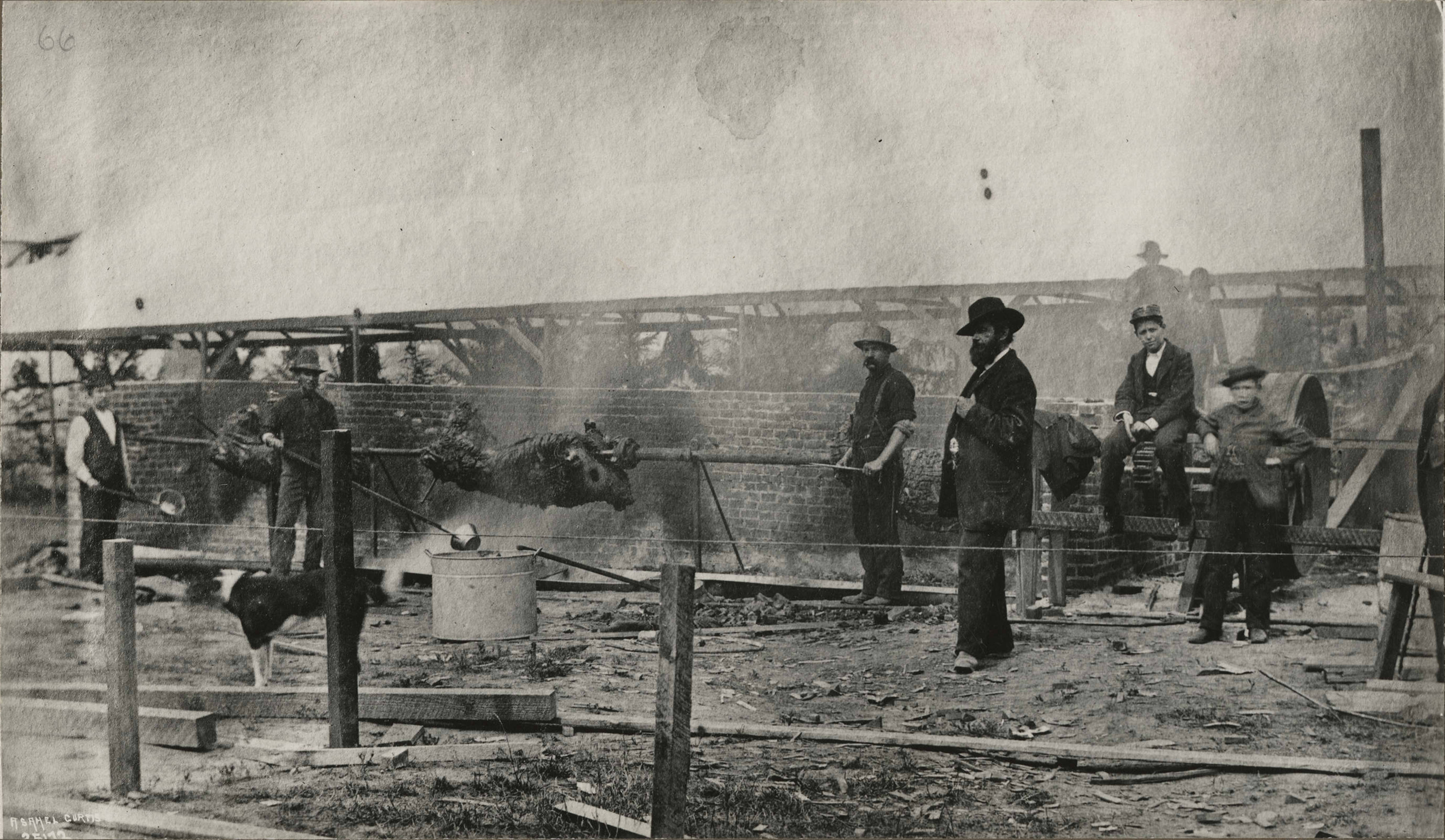 Seattle's First Potlatch. Villard, Henry. Visit. Sept. 14, 1883. Barbeque pit. 1. A.W. Piper. 2. Park Henderson. Called Seattle's first potlatch.